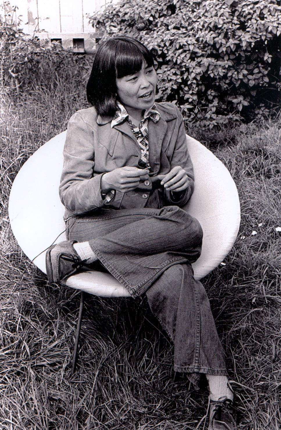 Japanese American Wendy Yoshimura, Fresno, California, 1976 filming an interview for the documentary, "Wendy…What's Her Name," directed by Curtis Choy. Photo by Nancy Wong